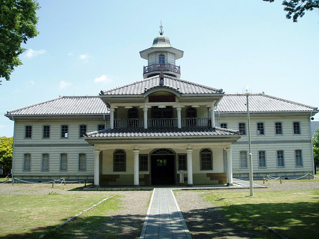 Former main building of Mitsukaido Elementary School, built in 1881, once located in Mitsukaido (present-day Joso), now preserved in the front garden of Ibaraki Prefectural Museum of History in Mito.